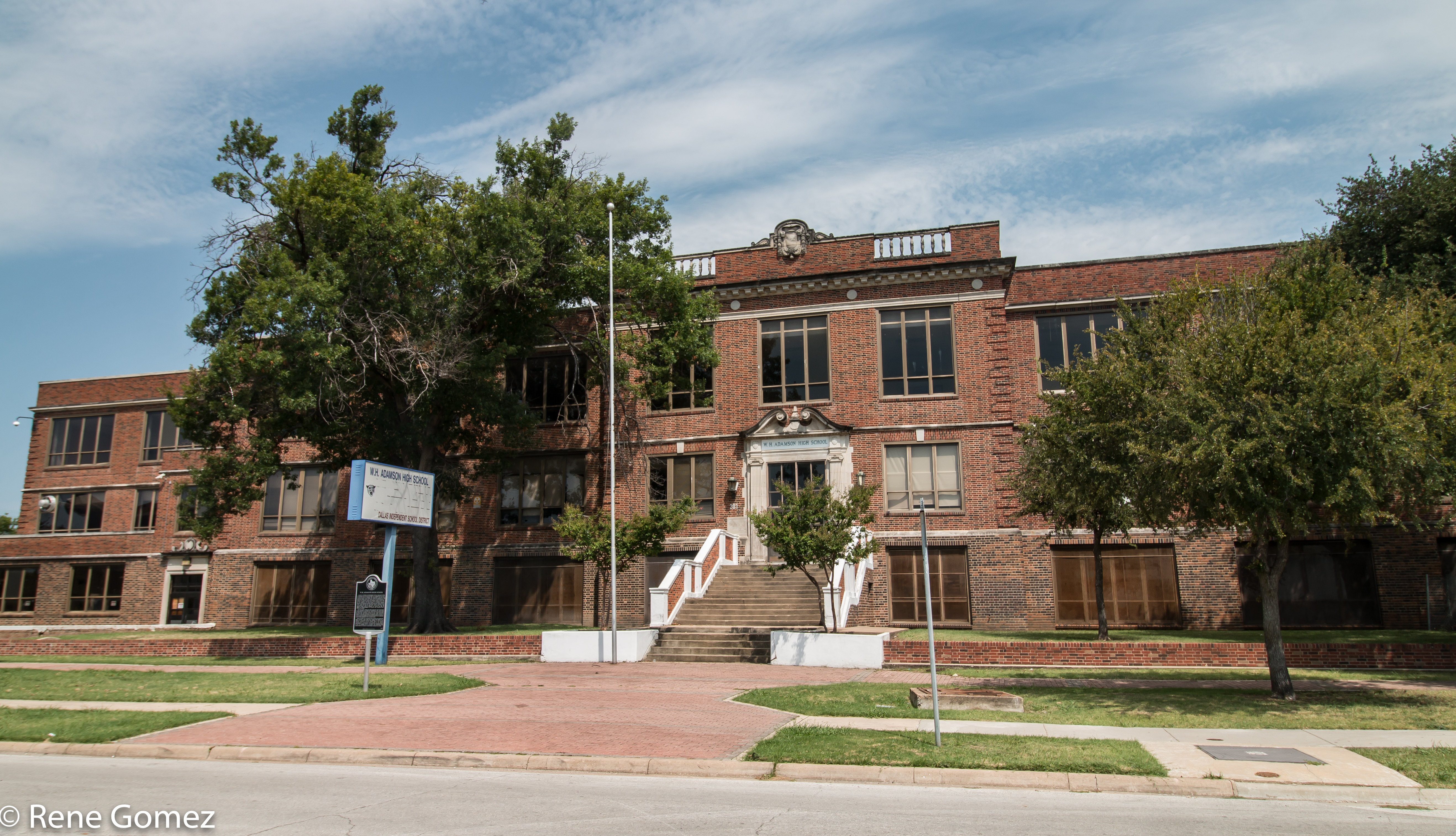 Old building of W. H. Adamson High School in Dallas, Texas